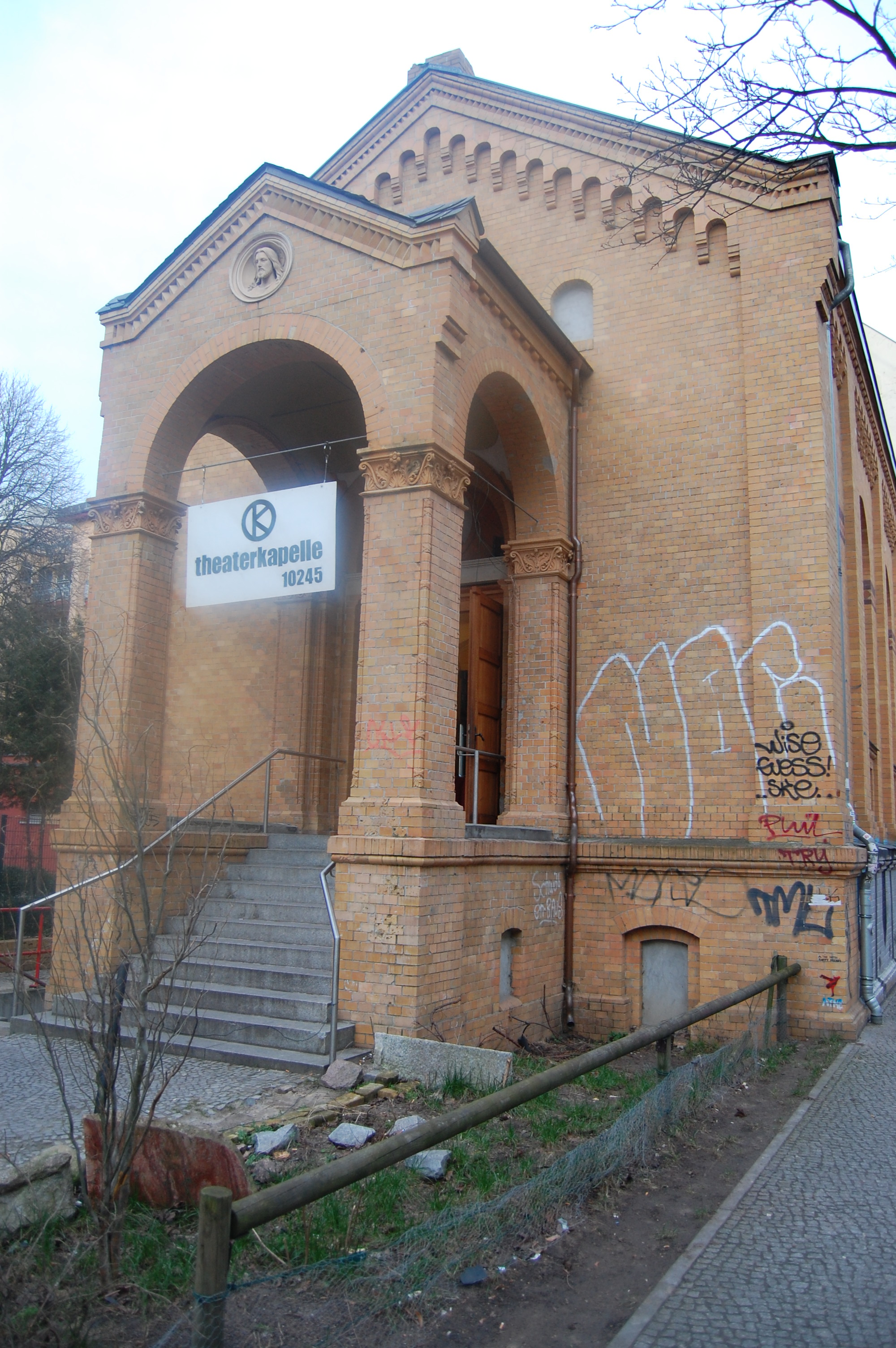 chapel in Georgen-Parochial-Friedhof IV in Berlin-Friedrichshain